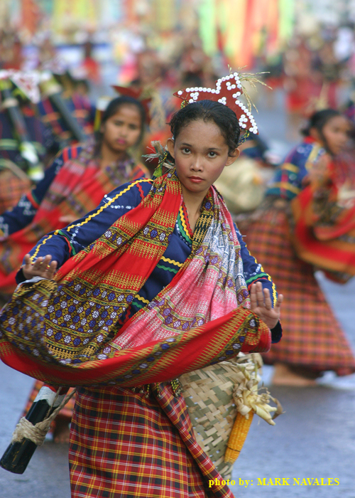 B' laan tribe dance during colorful street dancing competition on 9th T' NALAK Festival in Koronadal, South Cotabato